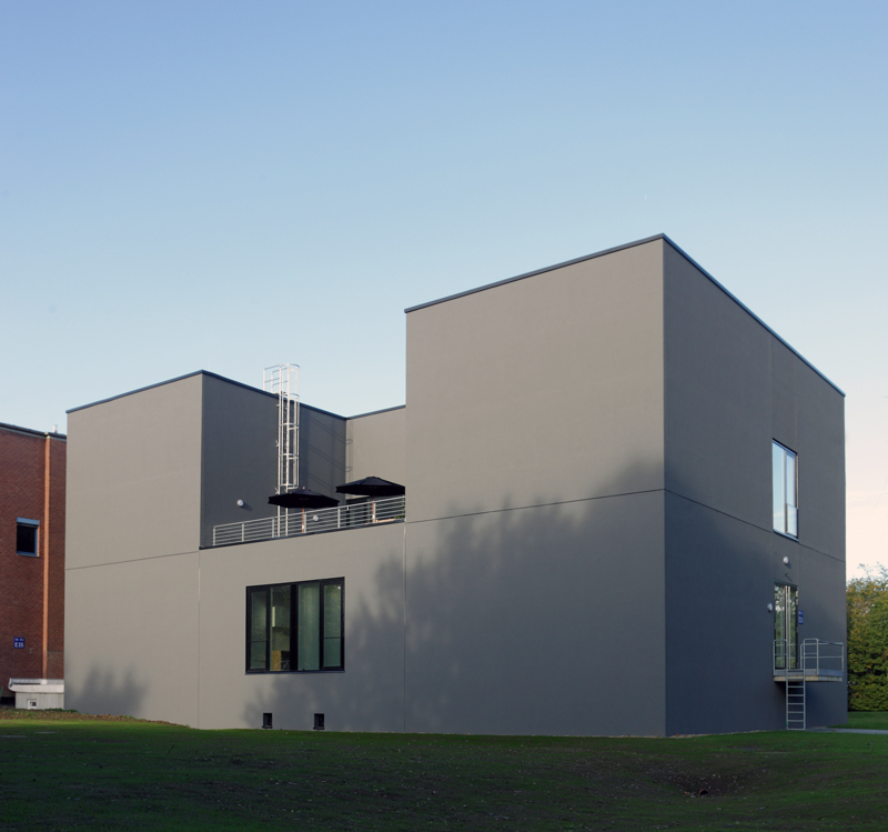 Laboratory annexe of the Ernst Ruska-Centre for Microscopy and Spectroscopy with Electron in Jülich, Germany.